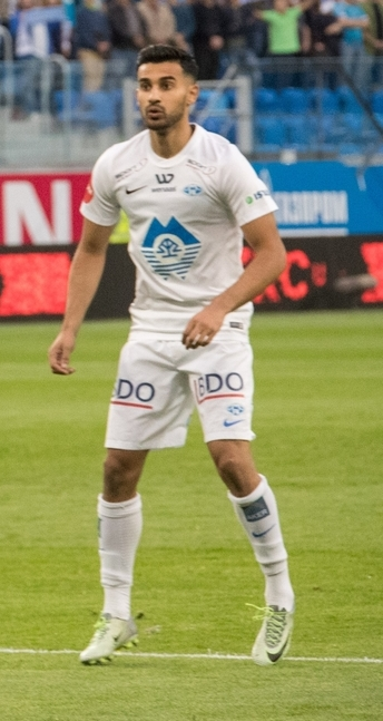 23.08.2018. Россия, Санкт-Петербург, стадион «Санкт-Петербург». Лига Европы УЕФА 2018/19, «Зенит» — «Мольде».